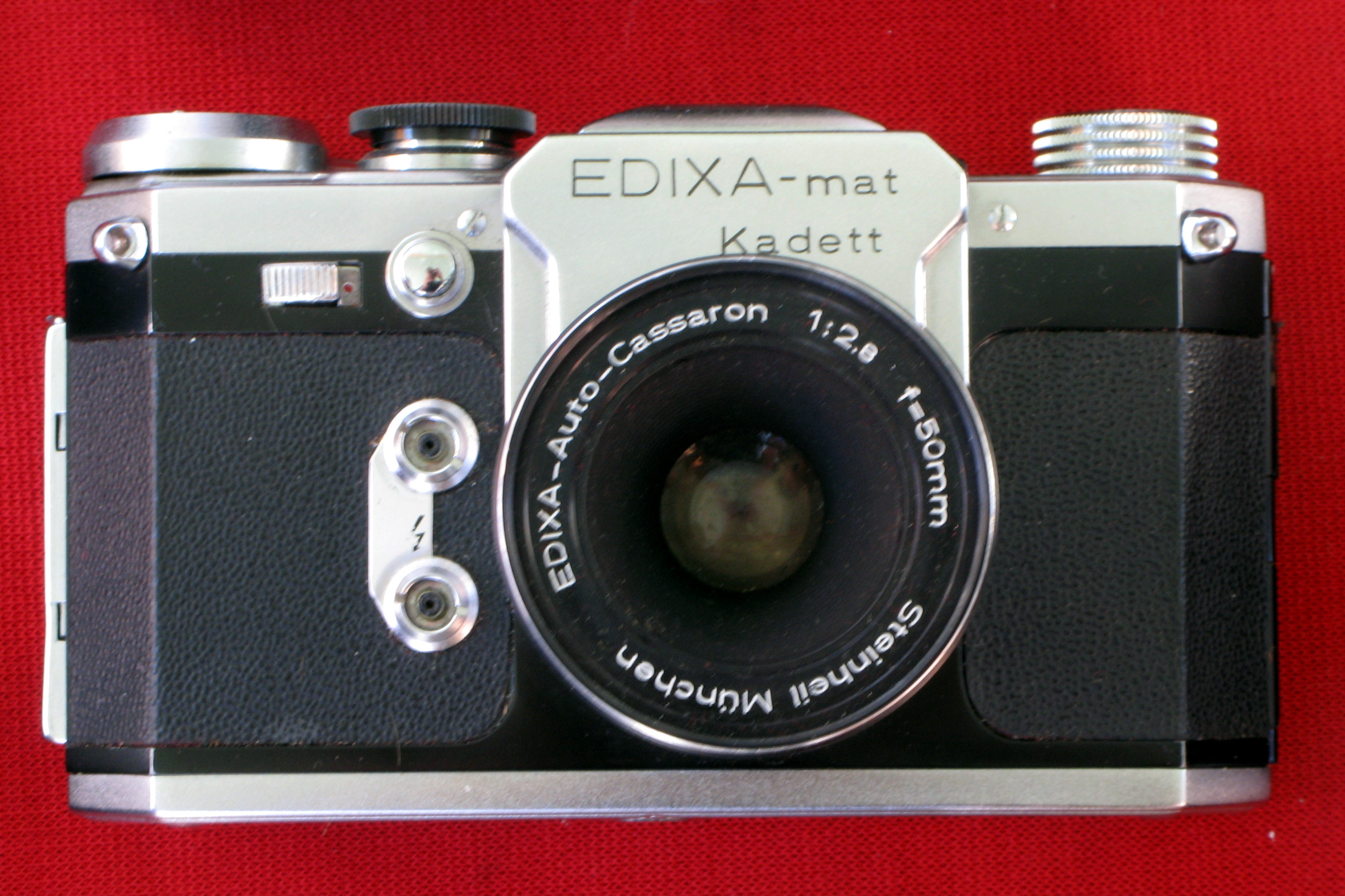 Diax Ia